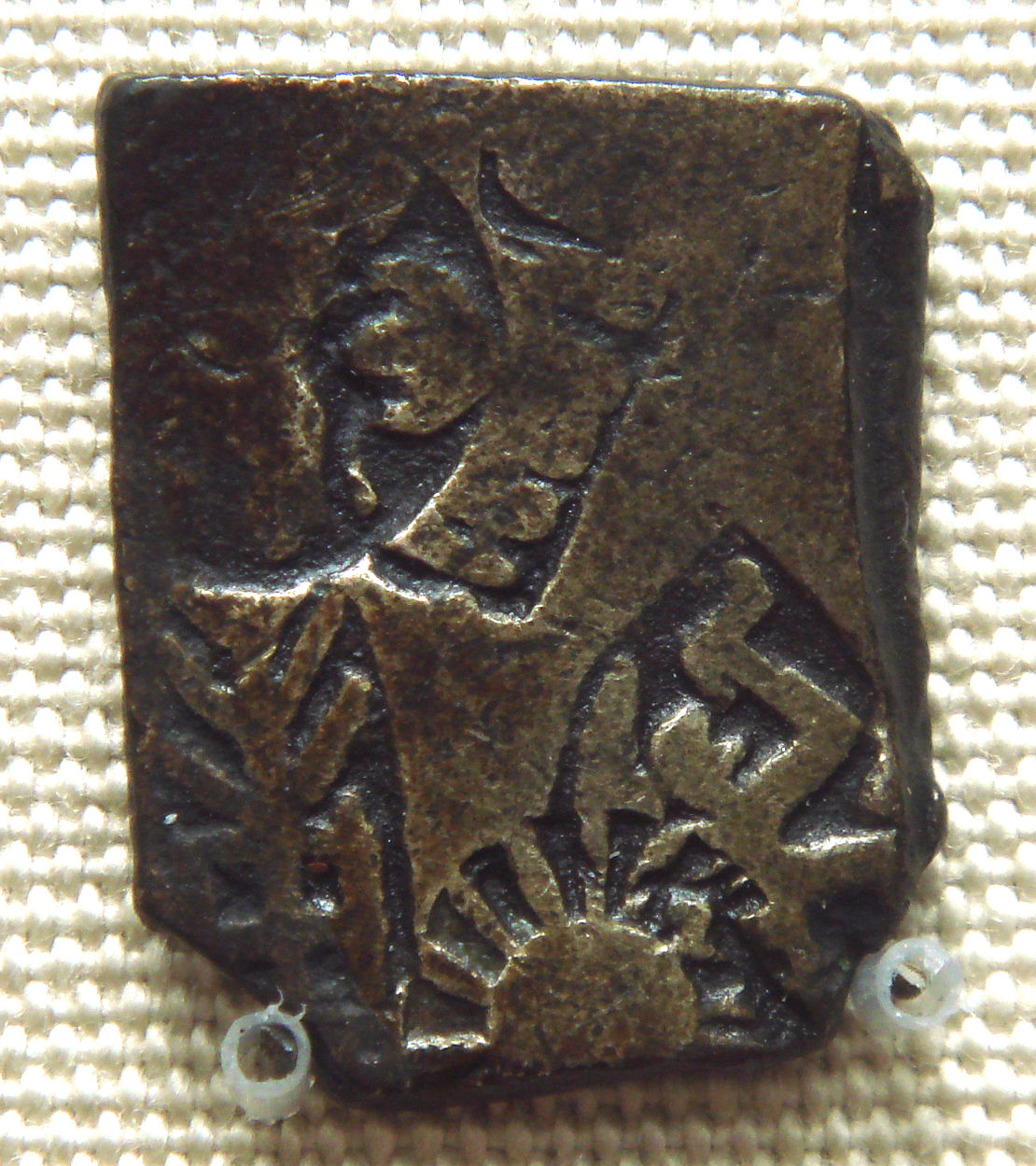 Balarama holding plough and conch of a silver coin of the Mauryan dynasty (3rd-2nd century BCE)